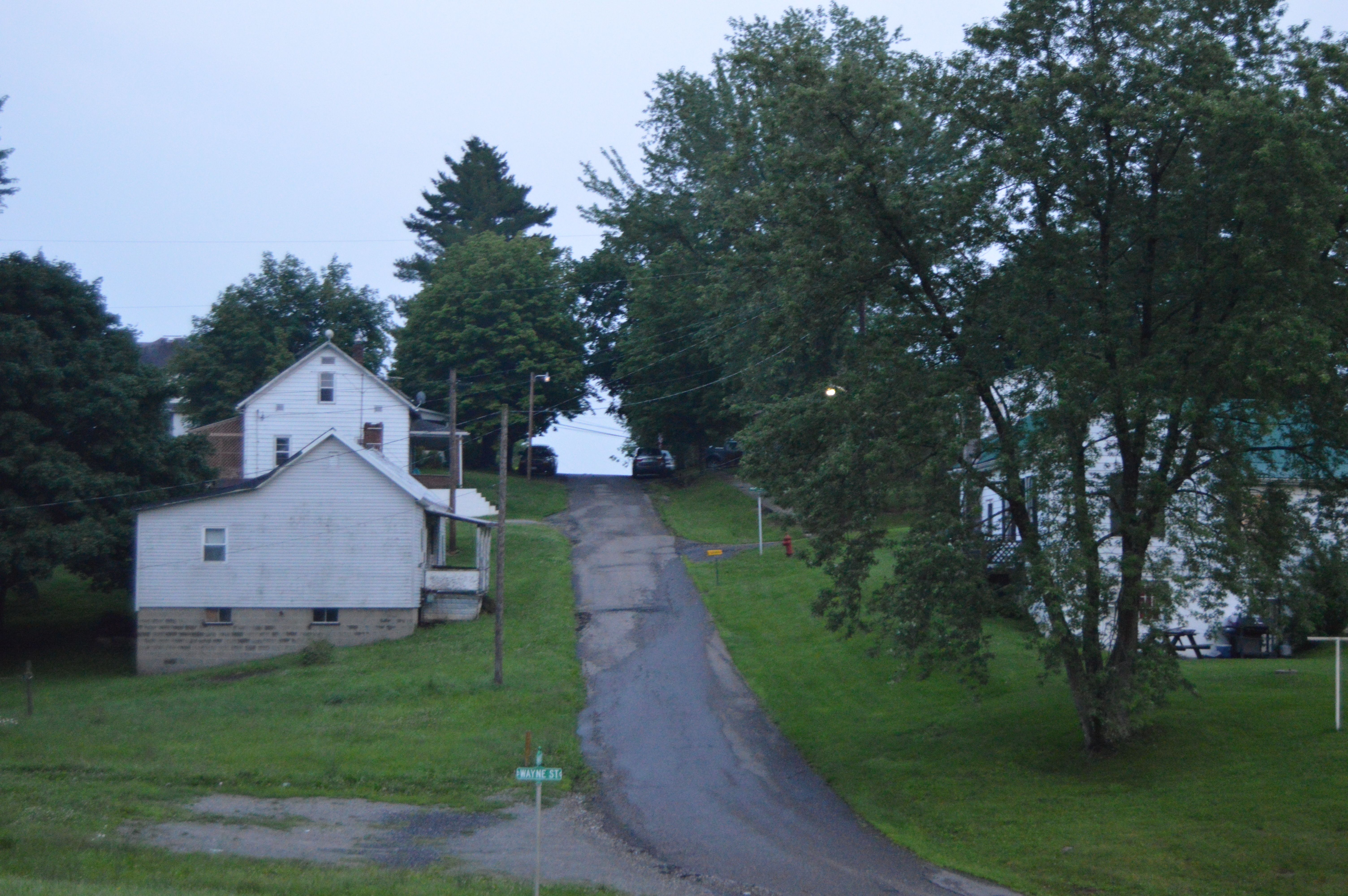 Looking southward along Main Street from State Routes 146/147 in Sarahsville, Ohio, United States.